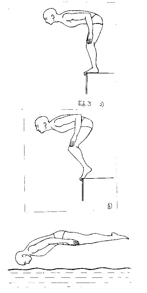 Start